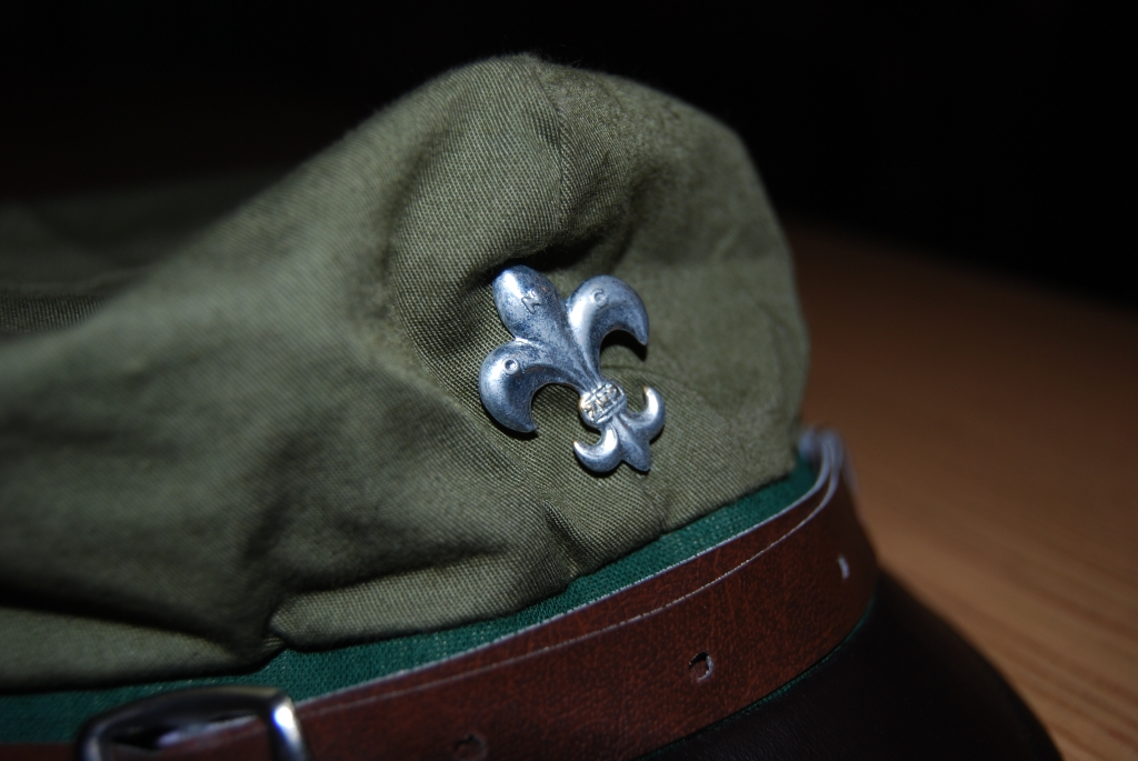 Fleur-de-lys of Polish Scouting Organization